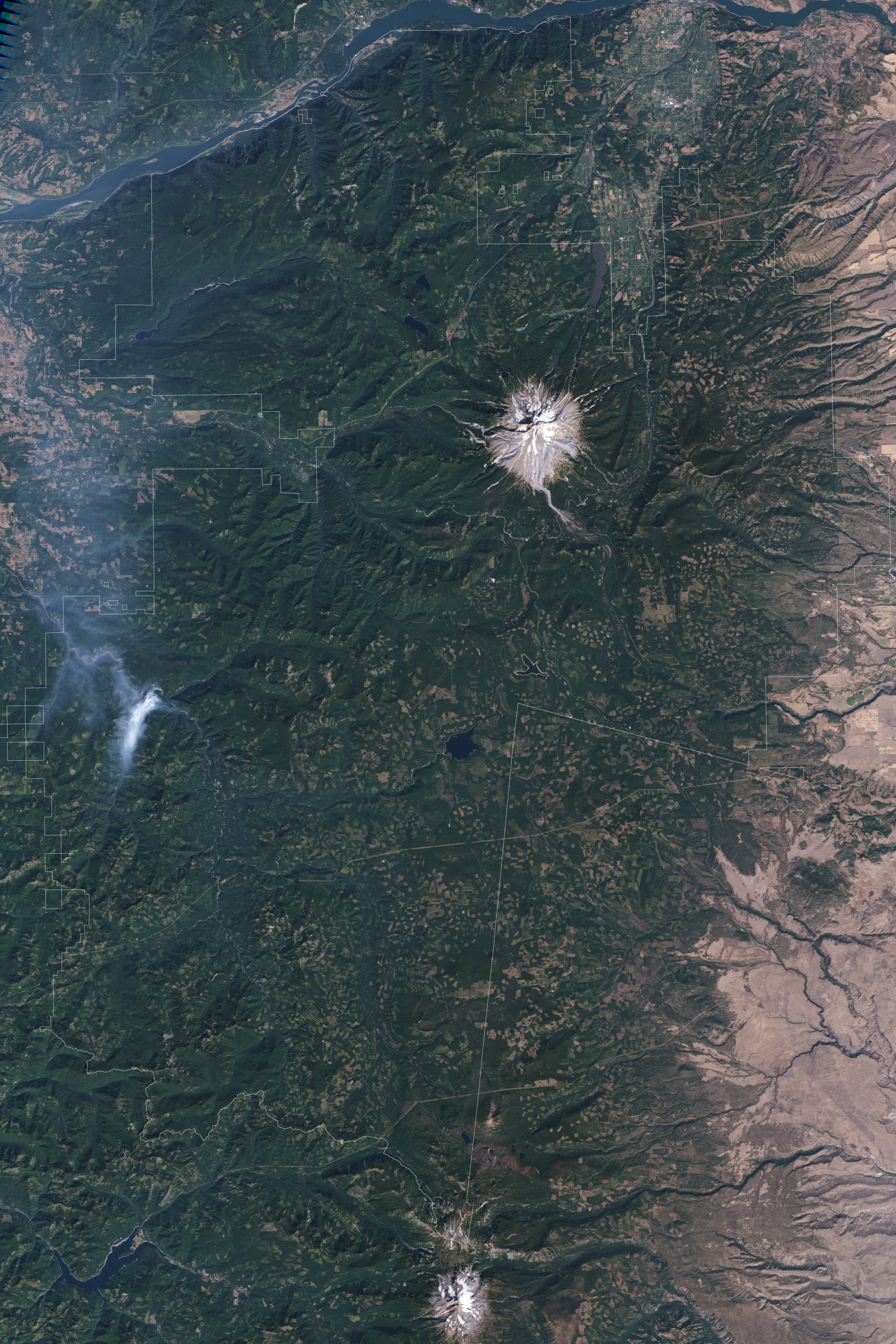 Natural-colour image of part of the Mt. Hood National Forest, including the volcano giving the park its name. (Park boundaries are outlined in white.) A carpet of deep green covers most of the rugged landscape, but patches of bare or sparsely vegetated ground occur around the fringes of this image. Part of the Columbia River appears in the upper left corner. Snow persists on Mt. Hood’s summit, even at the end of summer, and old lava flows leave rivulets of rock running deep into the surrounding forest.